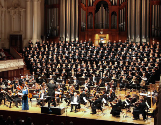 Auckland Choral performs at the Auckland Town Hall